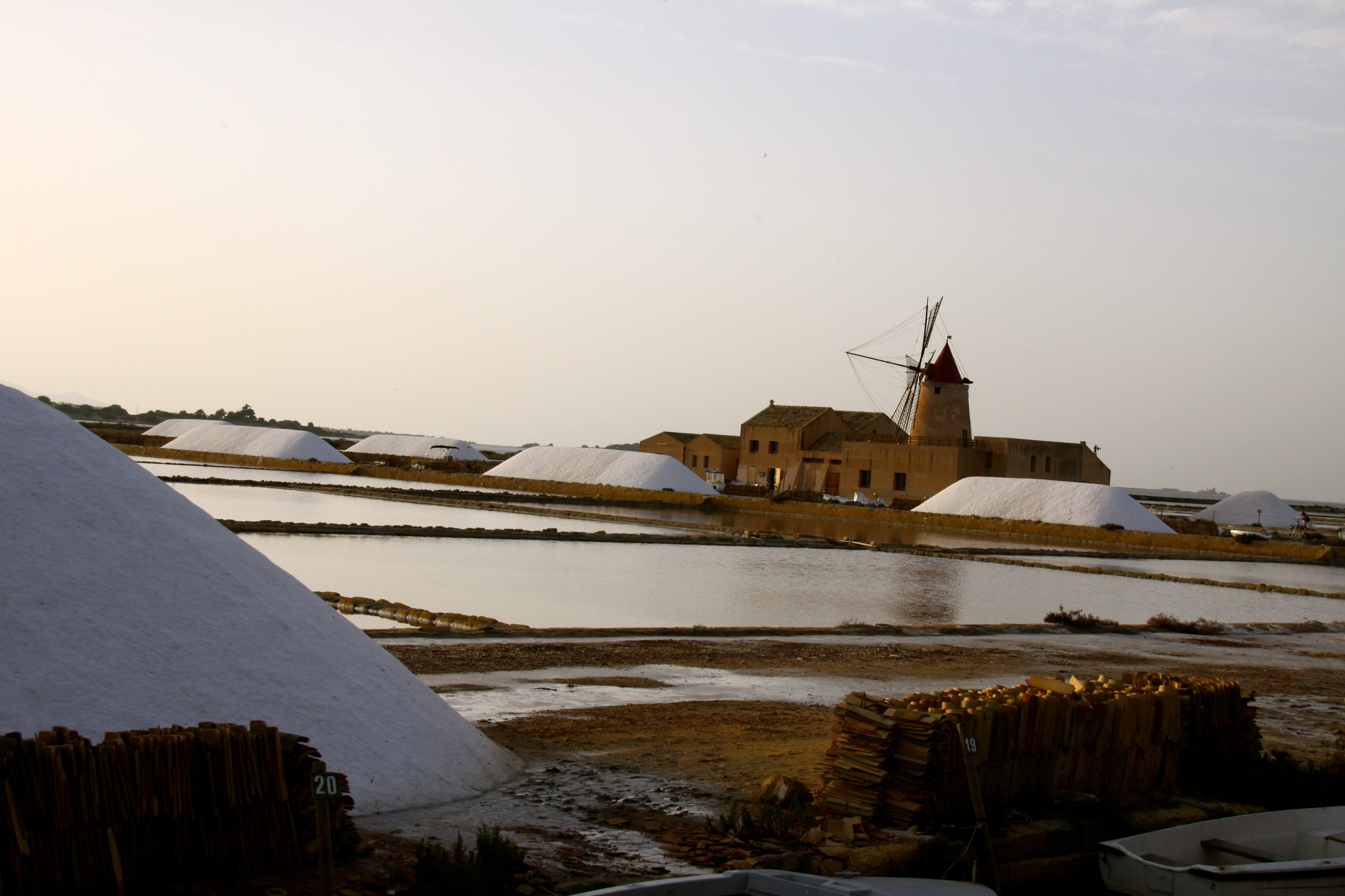 Salt evaporation ponds by Mozia